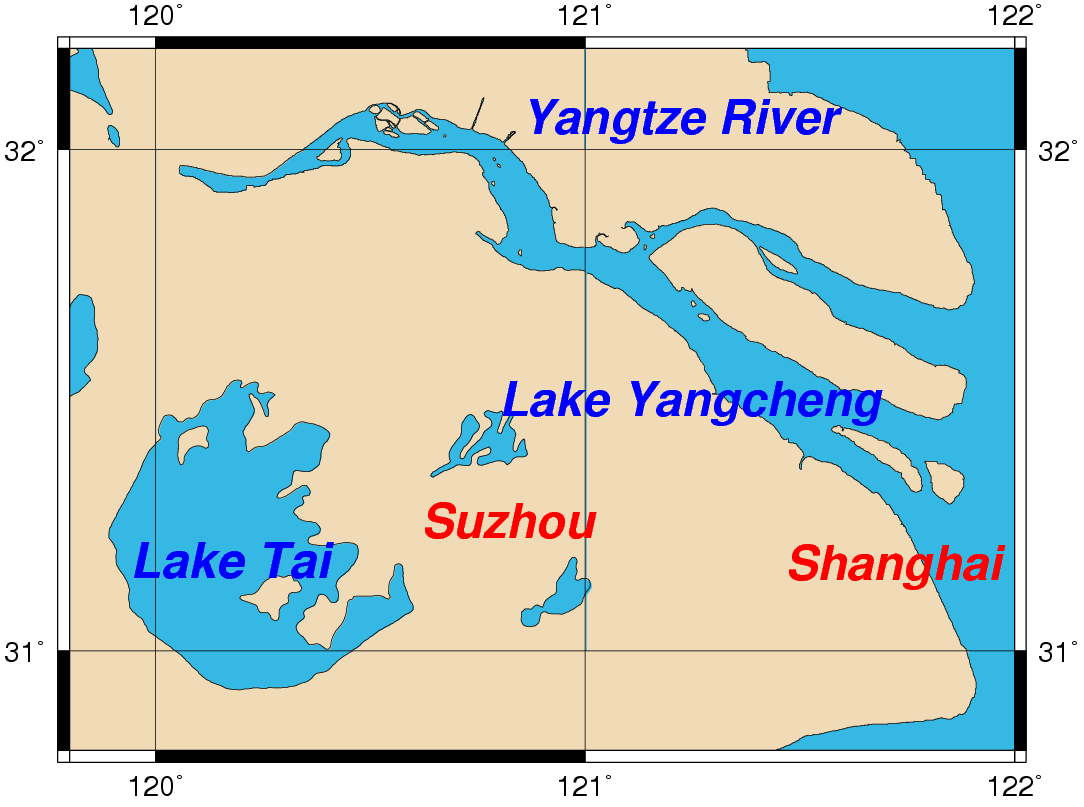 Map showing the location of Yangcheng Lake. Map generated using the Generic Mapping Tools (GMT). Generic Mapping Tools